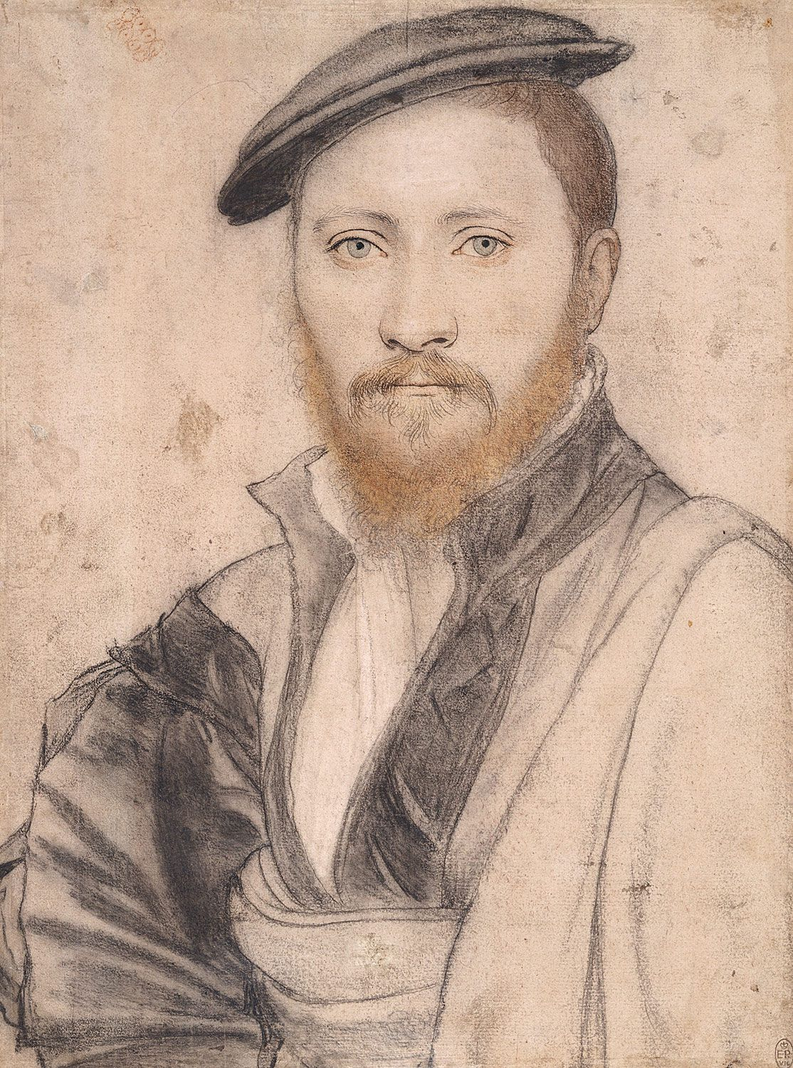 A portrait drawing of an unidentified man, perhaps Sir Ralph Sadler (1507–1587).